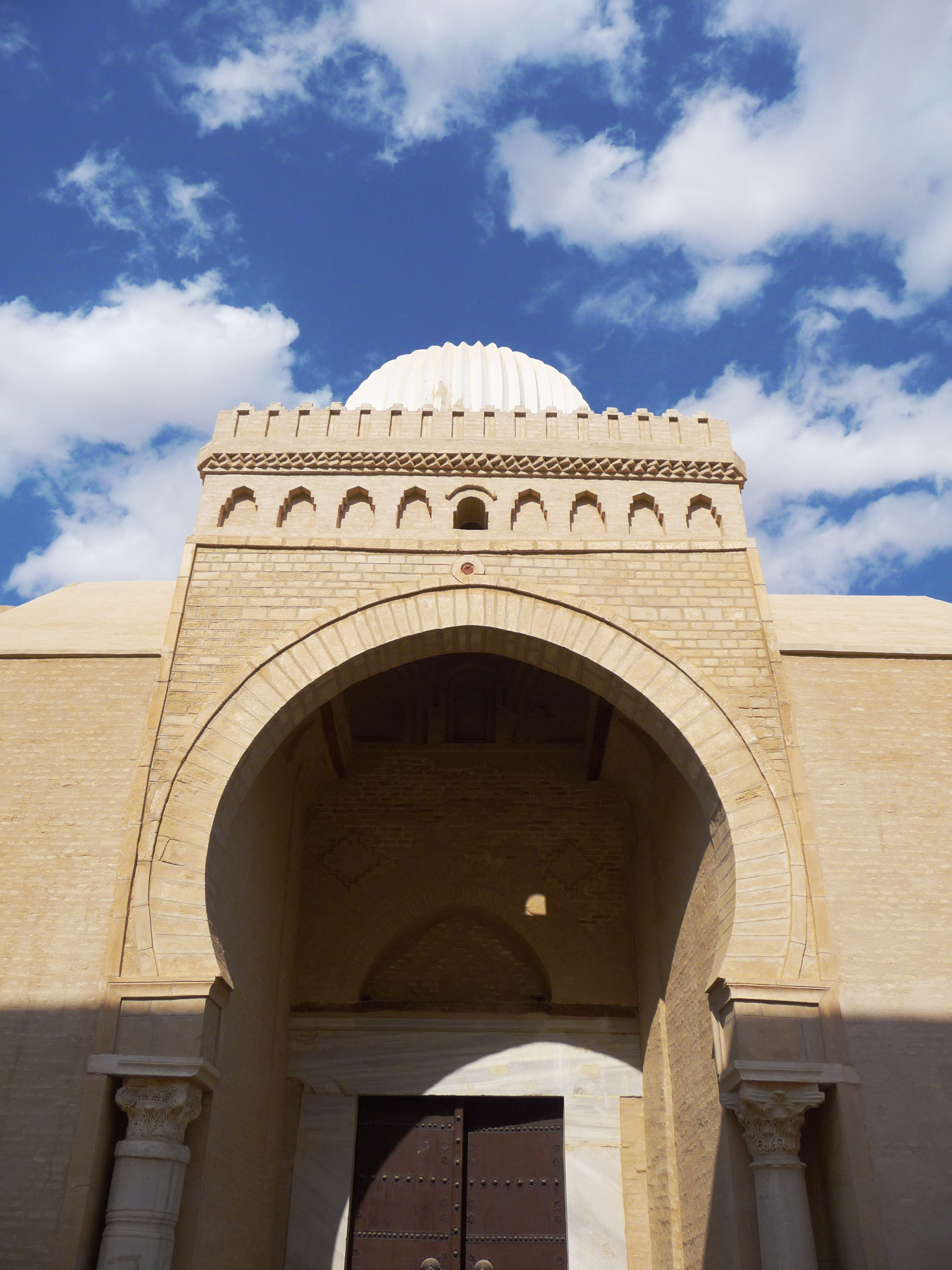 Gate of the Great Mosque of Kairouan in Tunisia